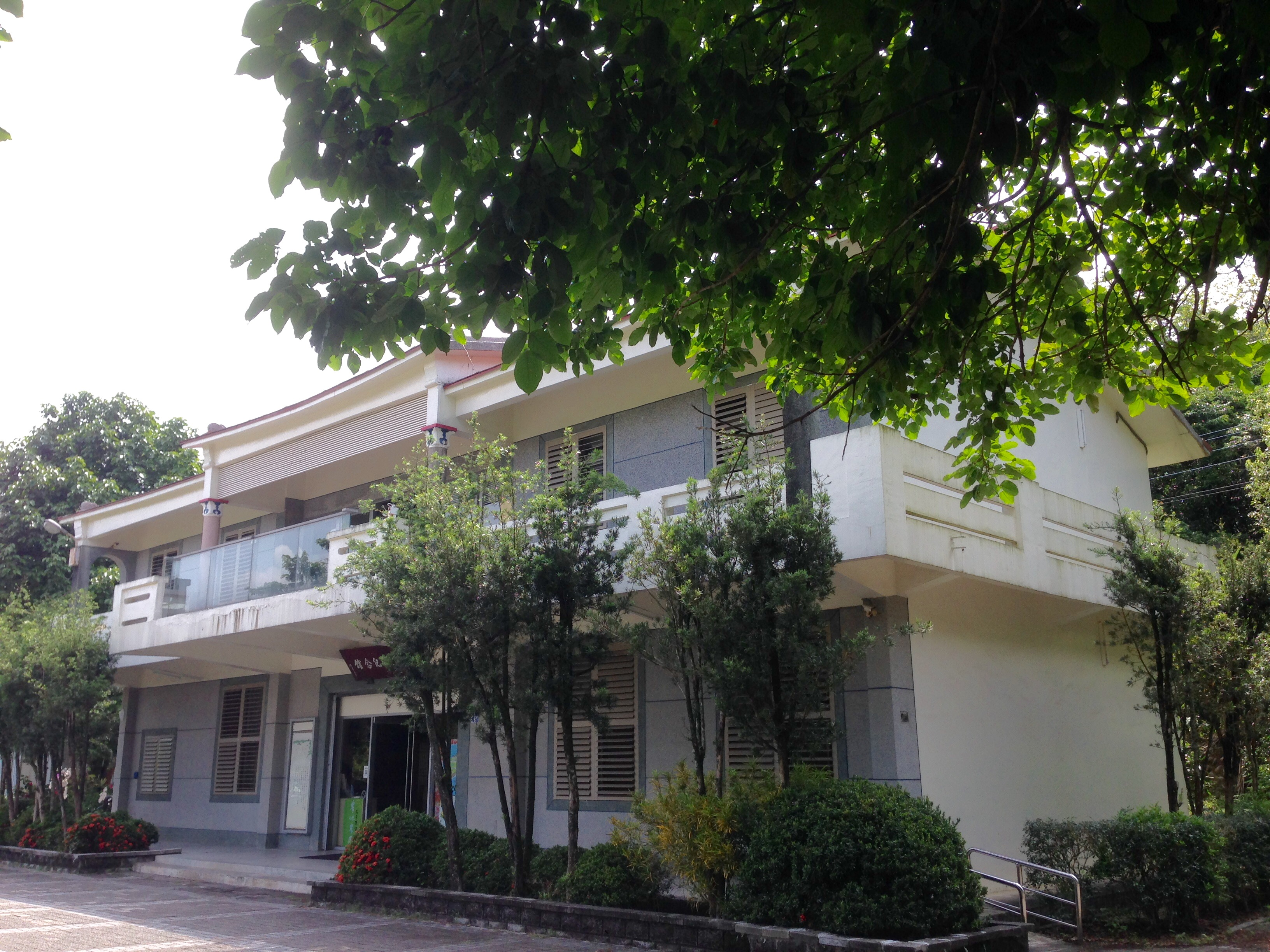 Chung Li-he Museum